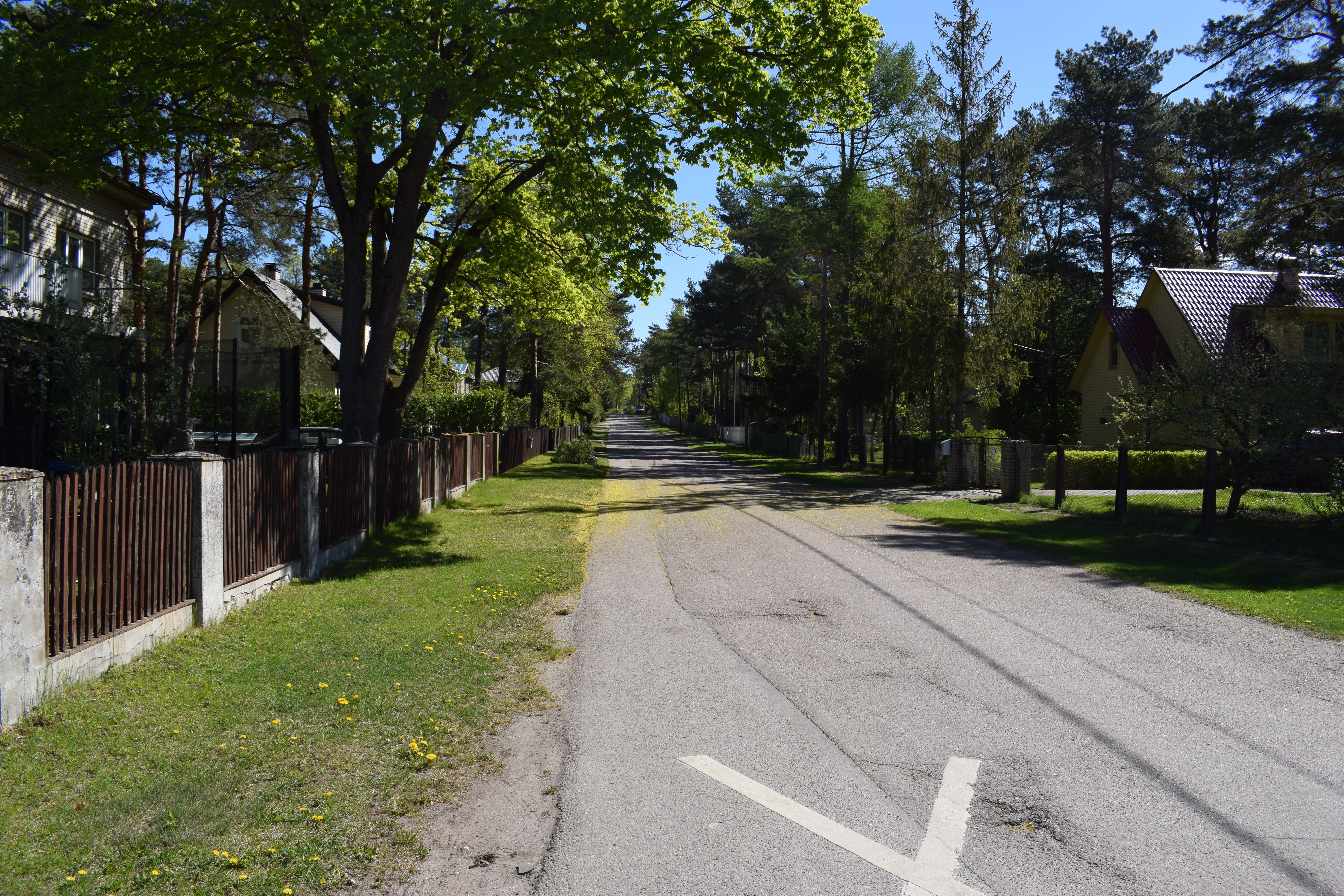 Läänekaare road